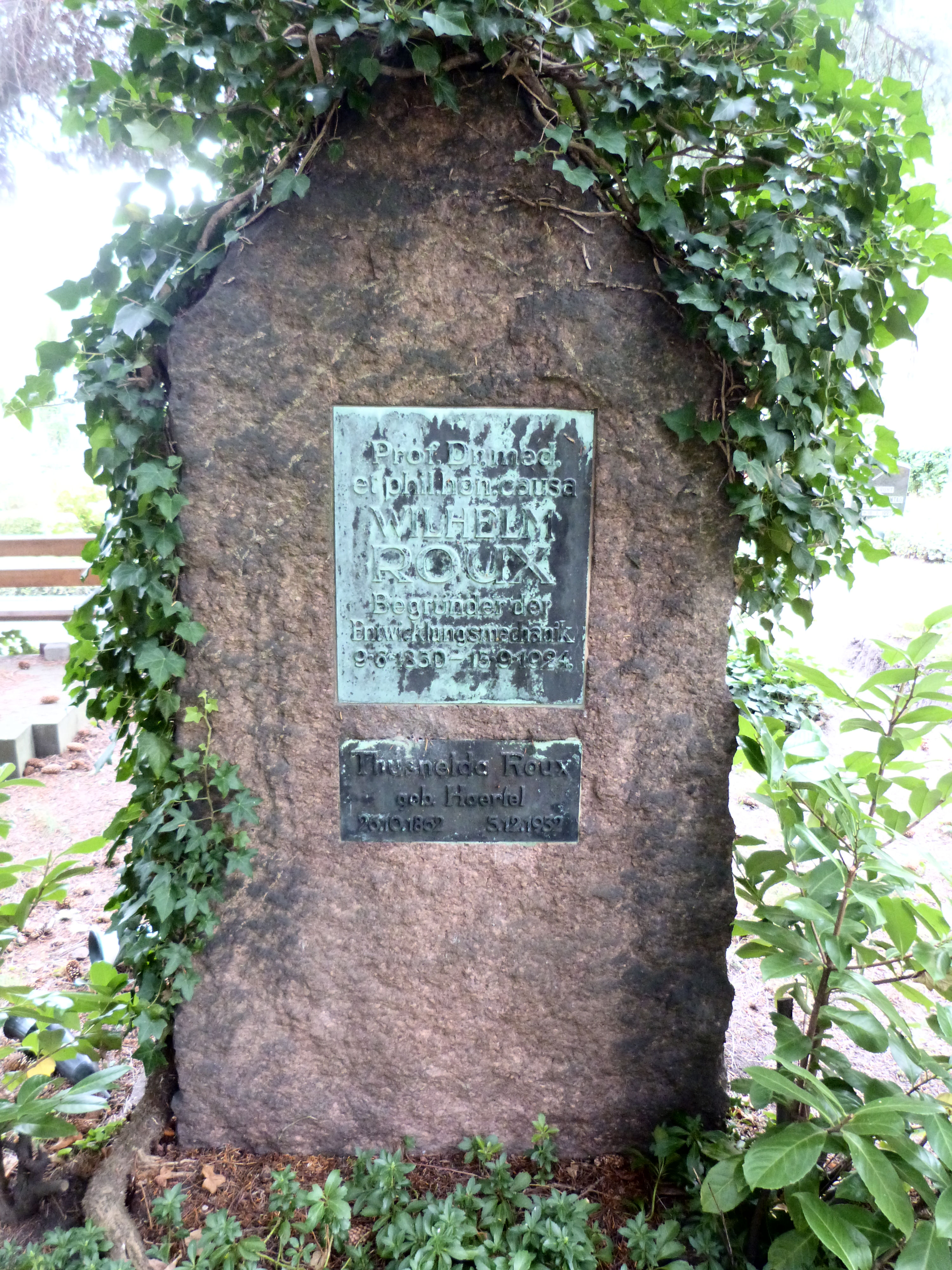 Grave stone for the anatomist Wilhelm Roux, St. Lawrence cemetery, Halle (Saale), Am Kirchtor